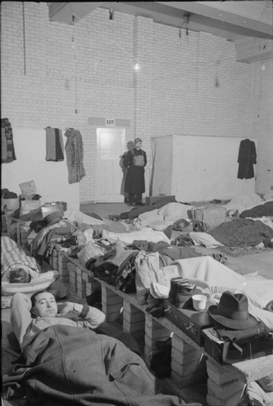 Life in a Basement Air Raid Shelter, London, England, 1940 A local policeman on his round drops into this basement shelter in London's West End to check that all is well. Shelterers sleep on the floor and low partitions of concrete blocks divide up the area. This photograph was taken in November 1940.